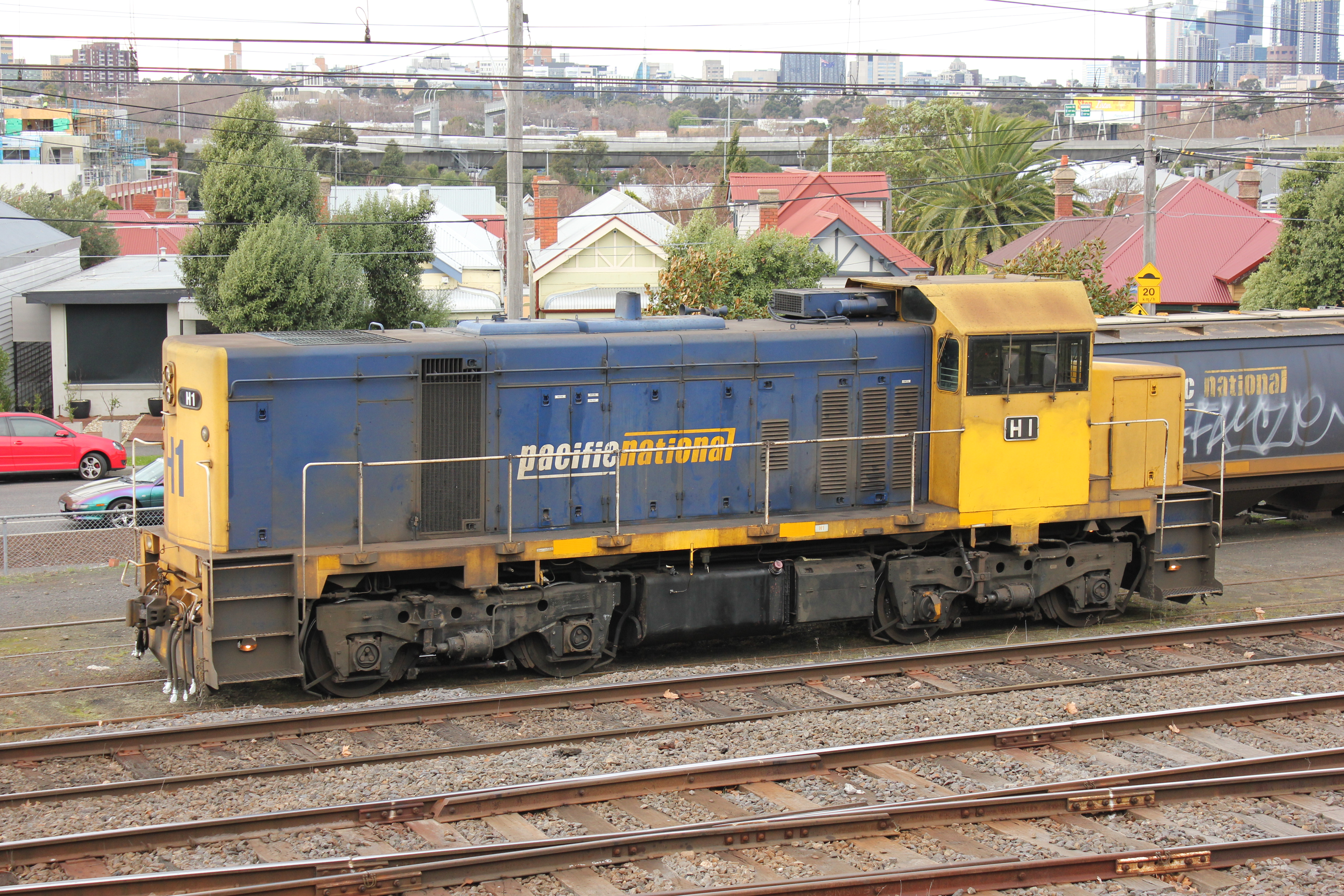 Pacific National locomotive H1 stabled at the Kensington Grain Sidings, June 2012